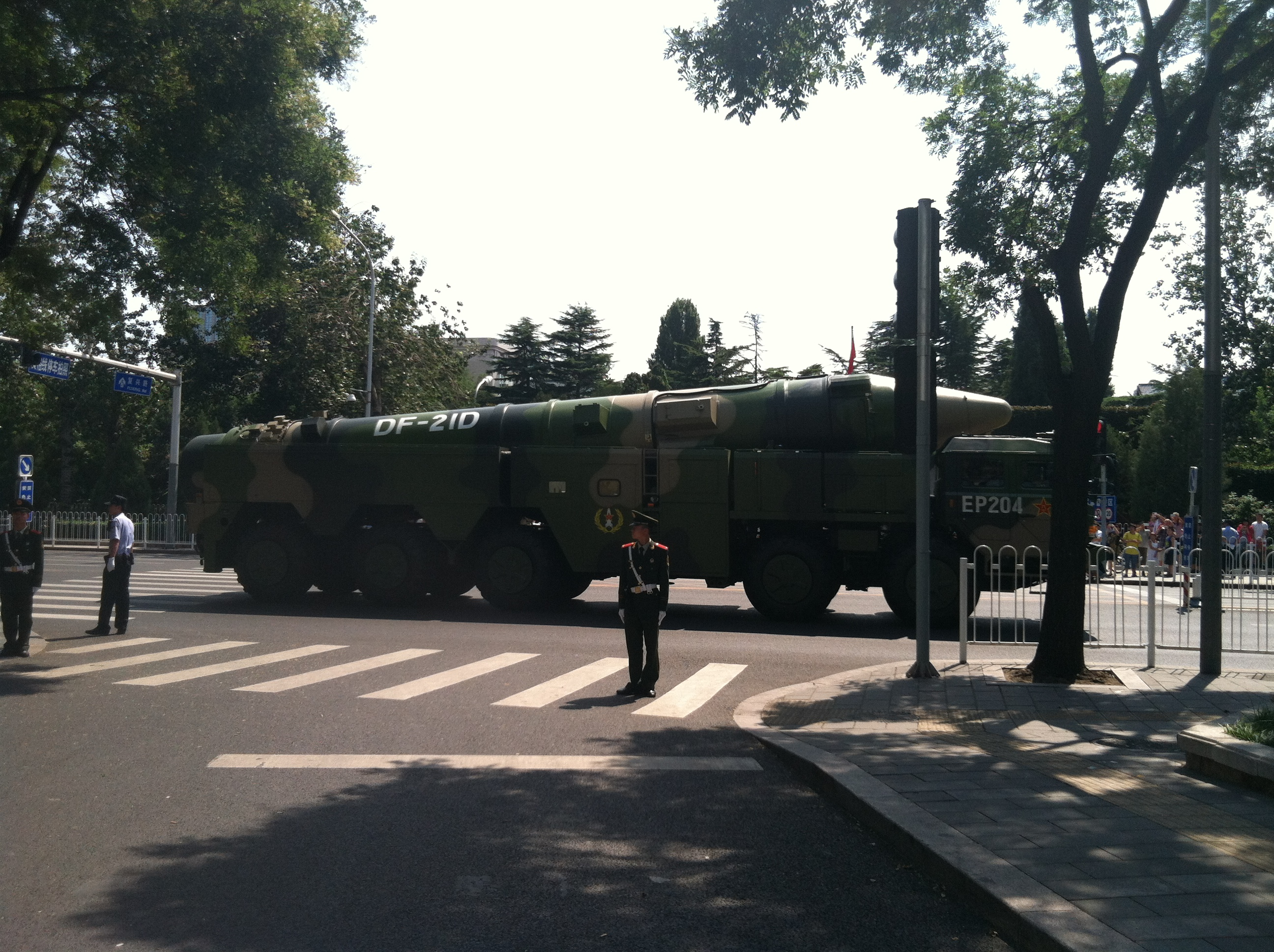 The newly developed anti-ship ballistic missile DF-21D as seen after the military parade held in Beijing to commemorate the 70th anniversary of the end of WWII.